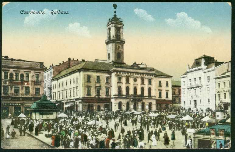 Main square of Chernivtsi city in western Ukraine,1905.